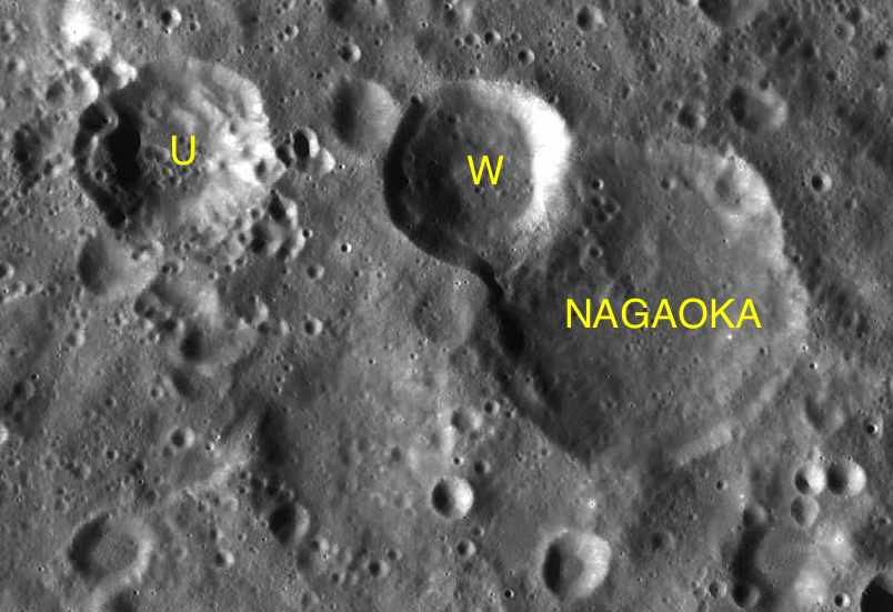 Part of the chart LAC-49 used for the presentation